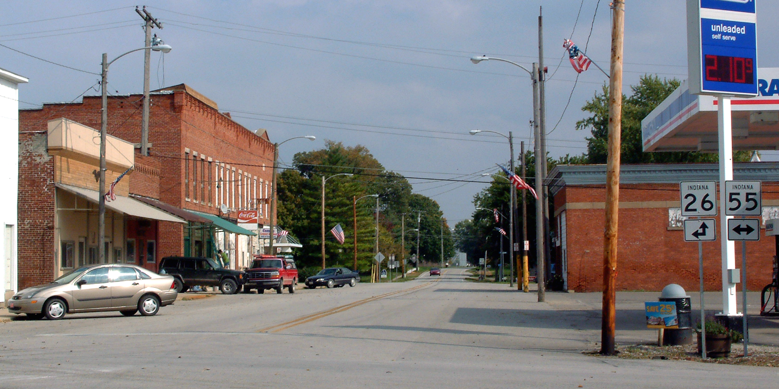 A view east along Lafayette Street in the town of Pine Village in Warren County, Indiana.